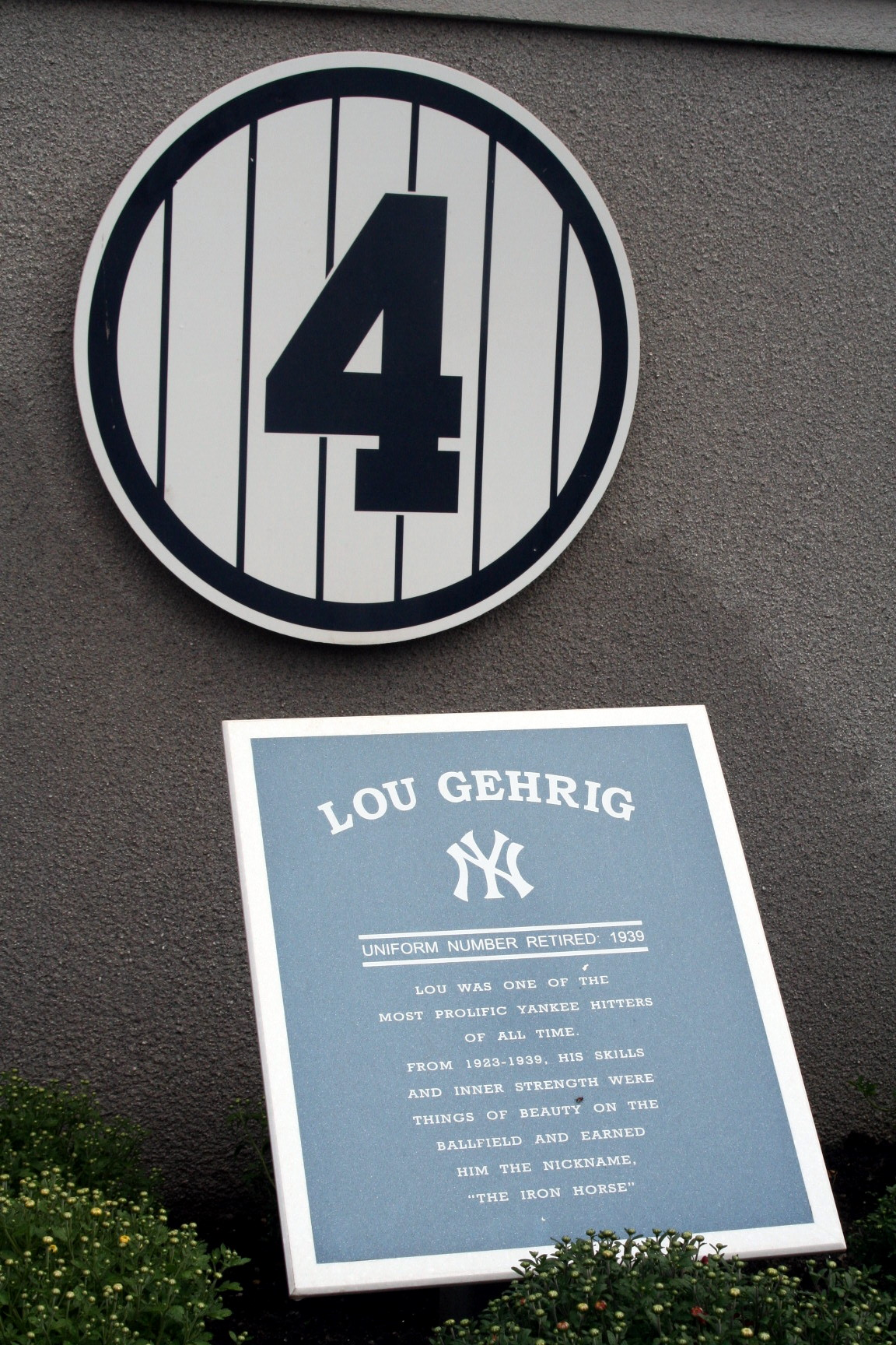 Lou Gehrig Monument in Yankee Stadium